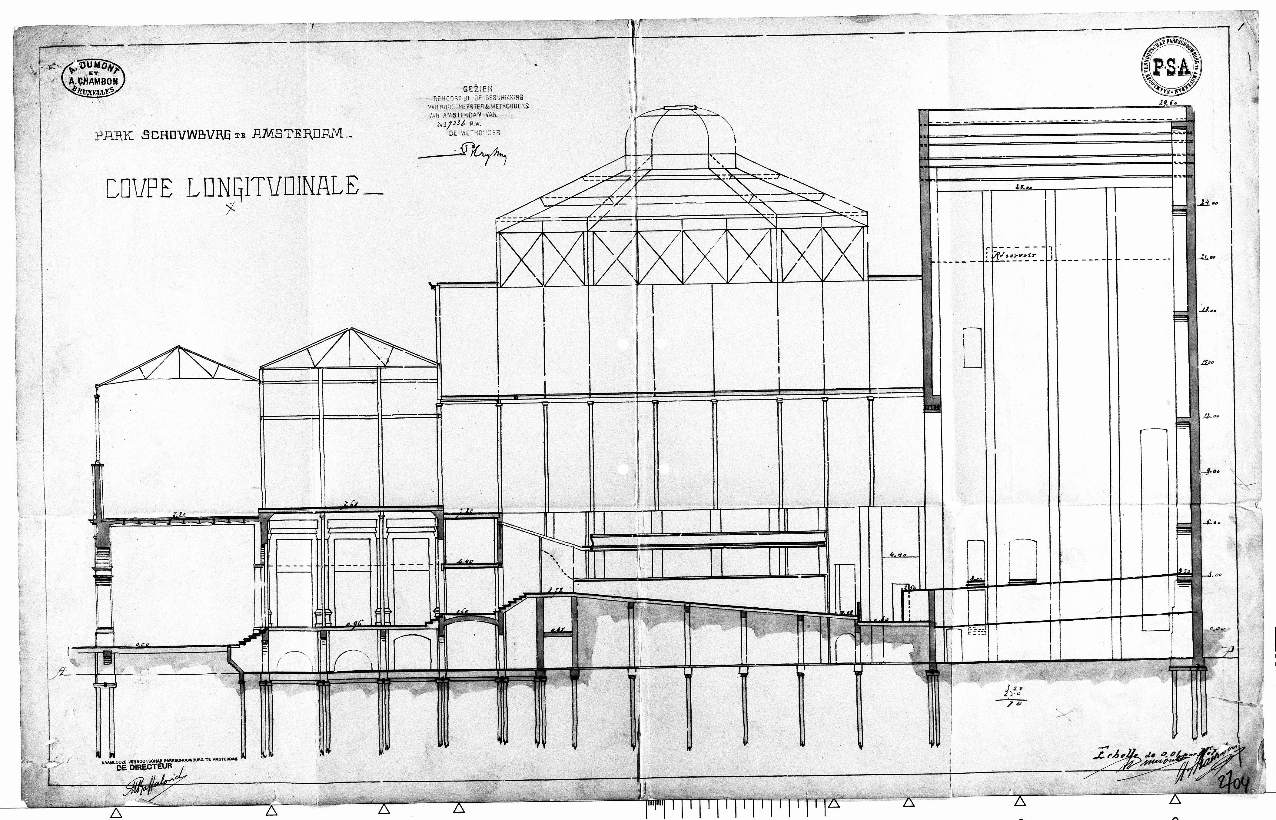 Architectural plan Parkschouwburg Amsterdam (1882)